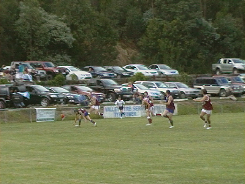 A Moe player smothers a kick by a Traralgon player